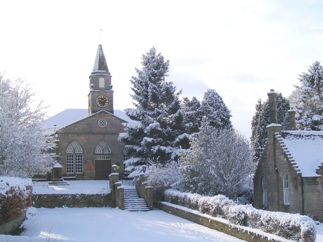 Currie Kirk in Winter Nestling at the foot of the Pentland Hills, this is one of the oldest Reformation churches in Scotland still in regular use. It has been a holy site since Celtic times and was supposedly founded by St Kentigern who may have used the old "Monks Road" through the hills.